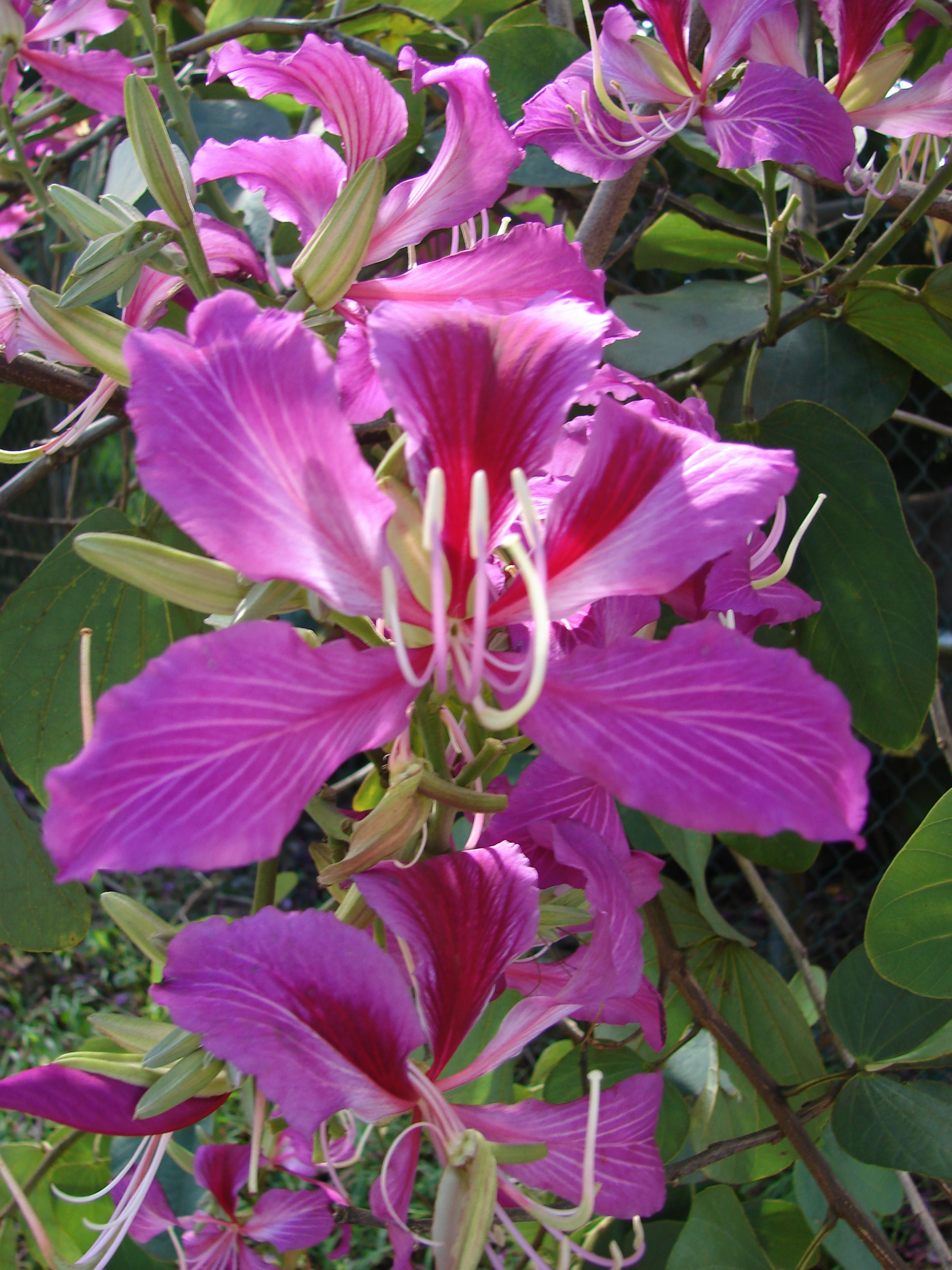 Bauhinia x blakeana (flowers). Location: Maui, Kokomo Rd Haiku